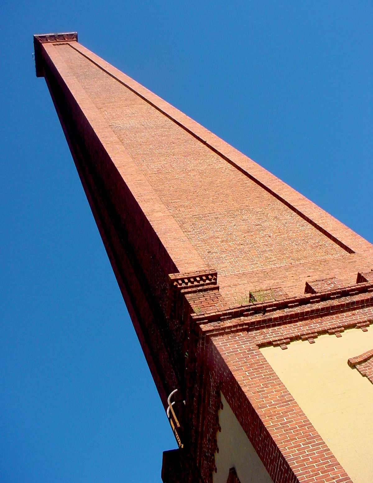 The Confederate Powderworks chimney, located at the Sibley Mill in Augusta, Georgia.